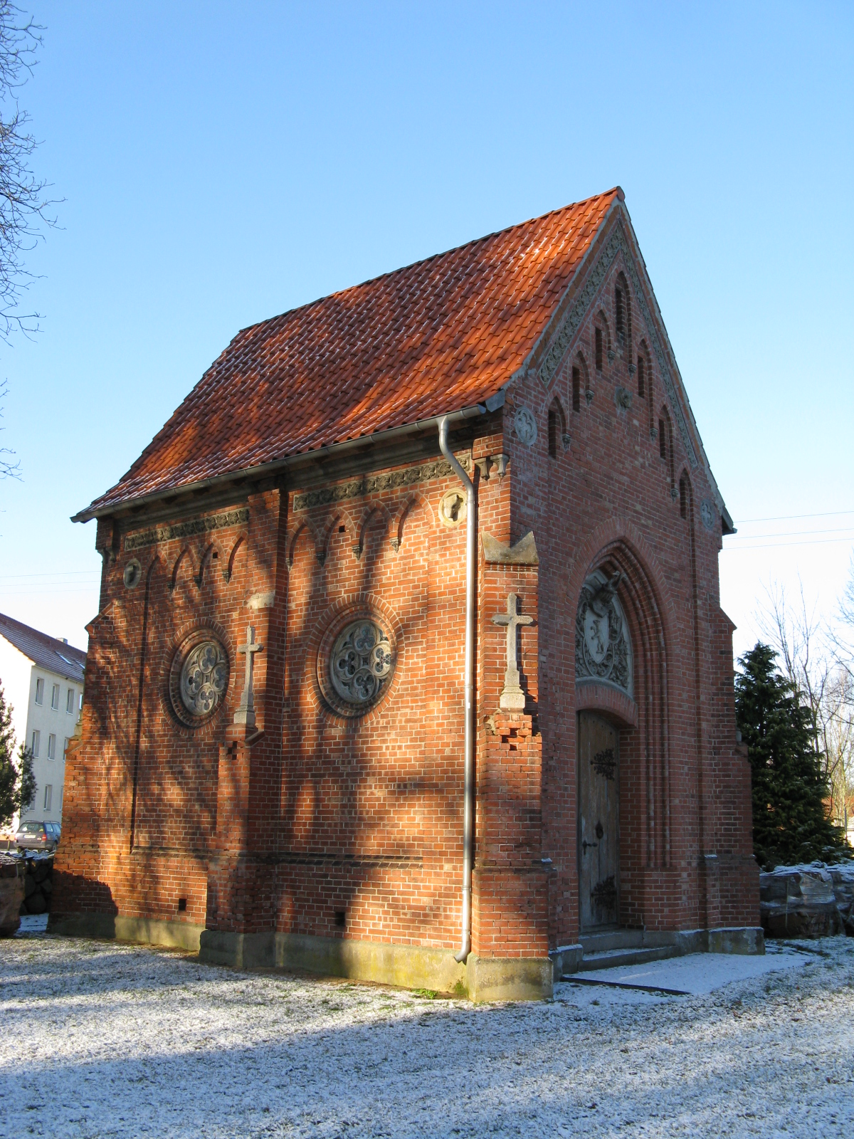 Chapel at church yard of church in Pokrent, Mecklenburg-Vorpommern, Germany